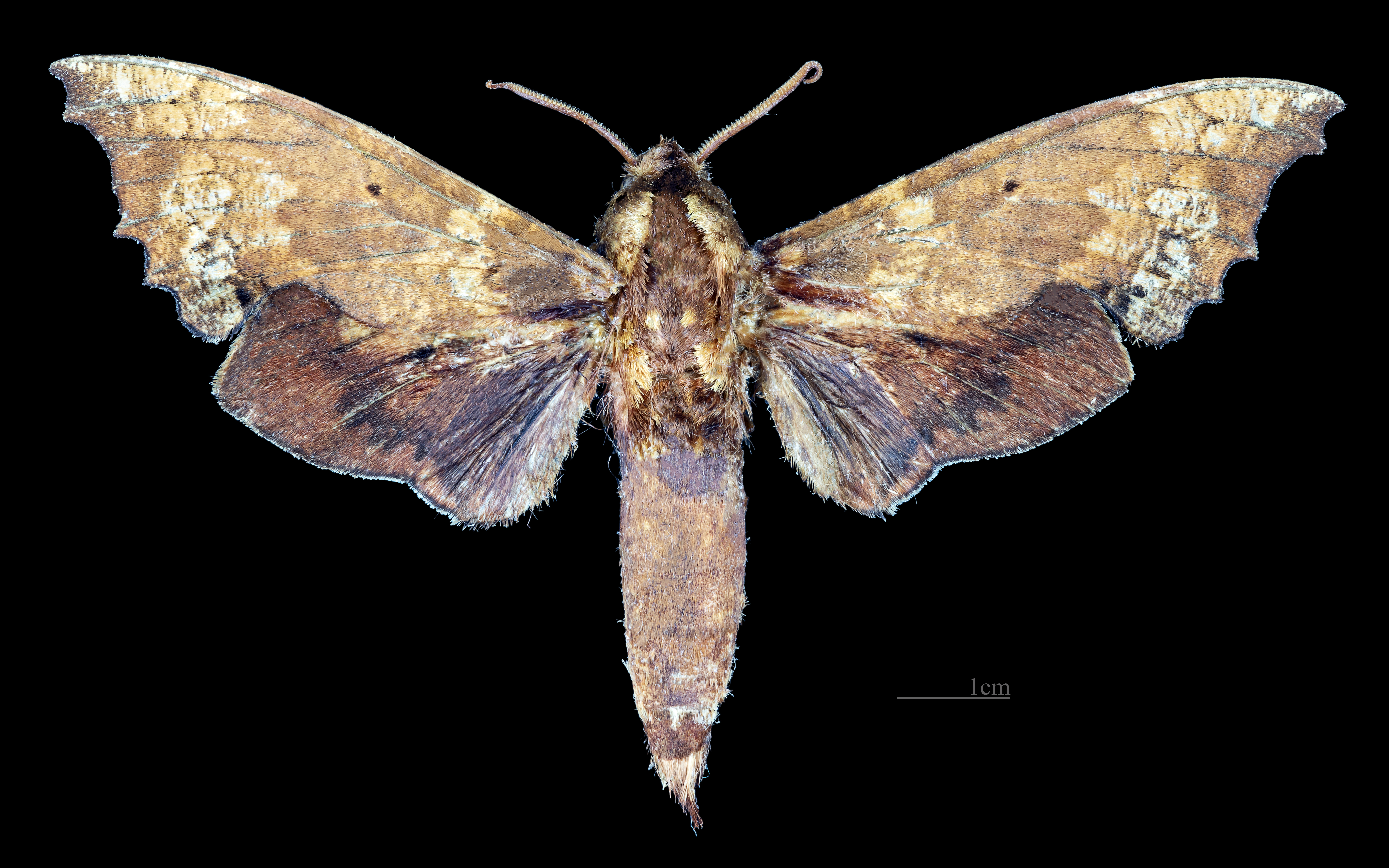 Smerinthulus olivacea - Dorsal side Collection of the Mathematician Laurent Schwartz